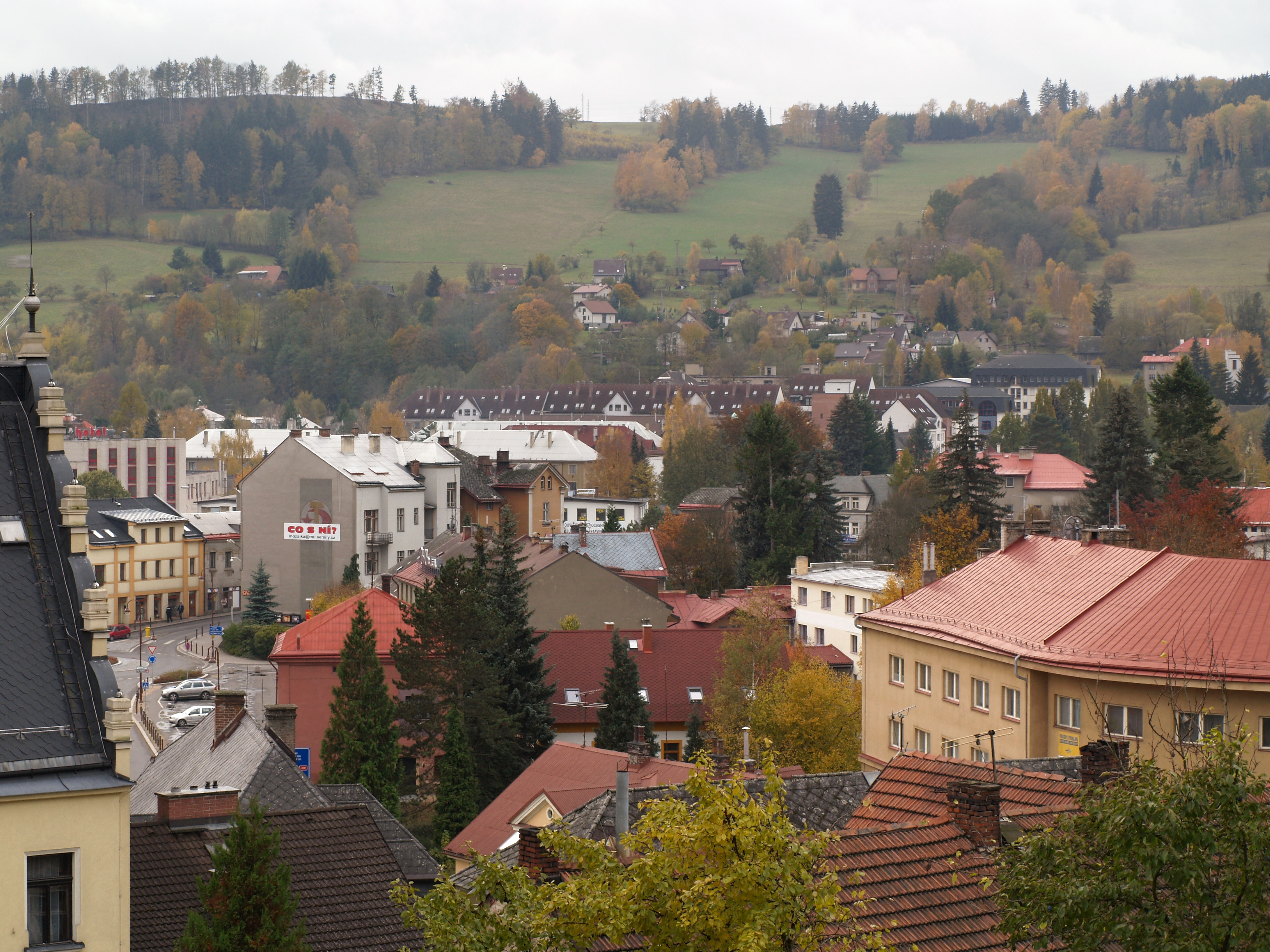 Czech town Semily—view of centre and Podmoklice